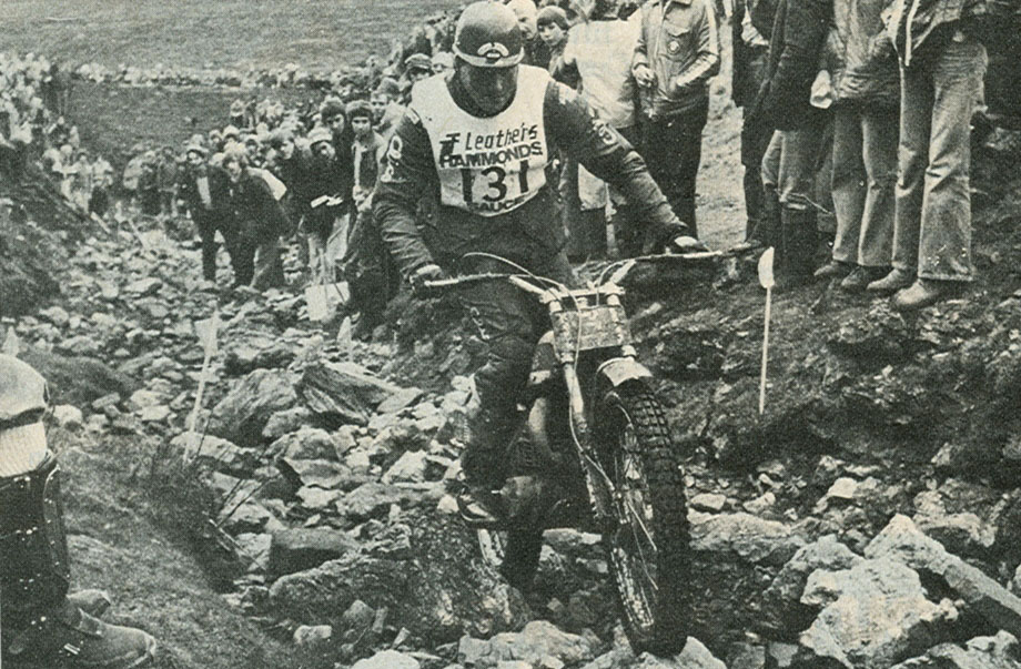 Martin Lampkin, Bultaco, by 1977